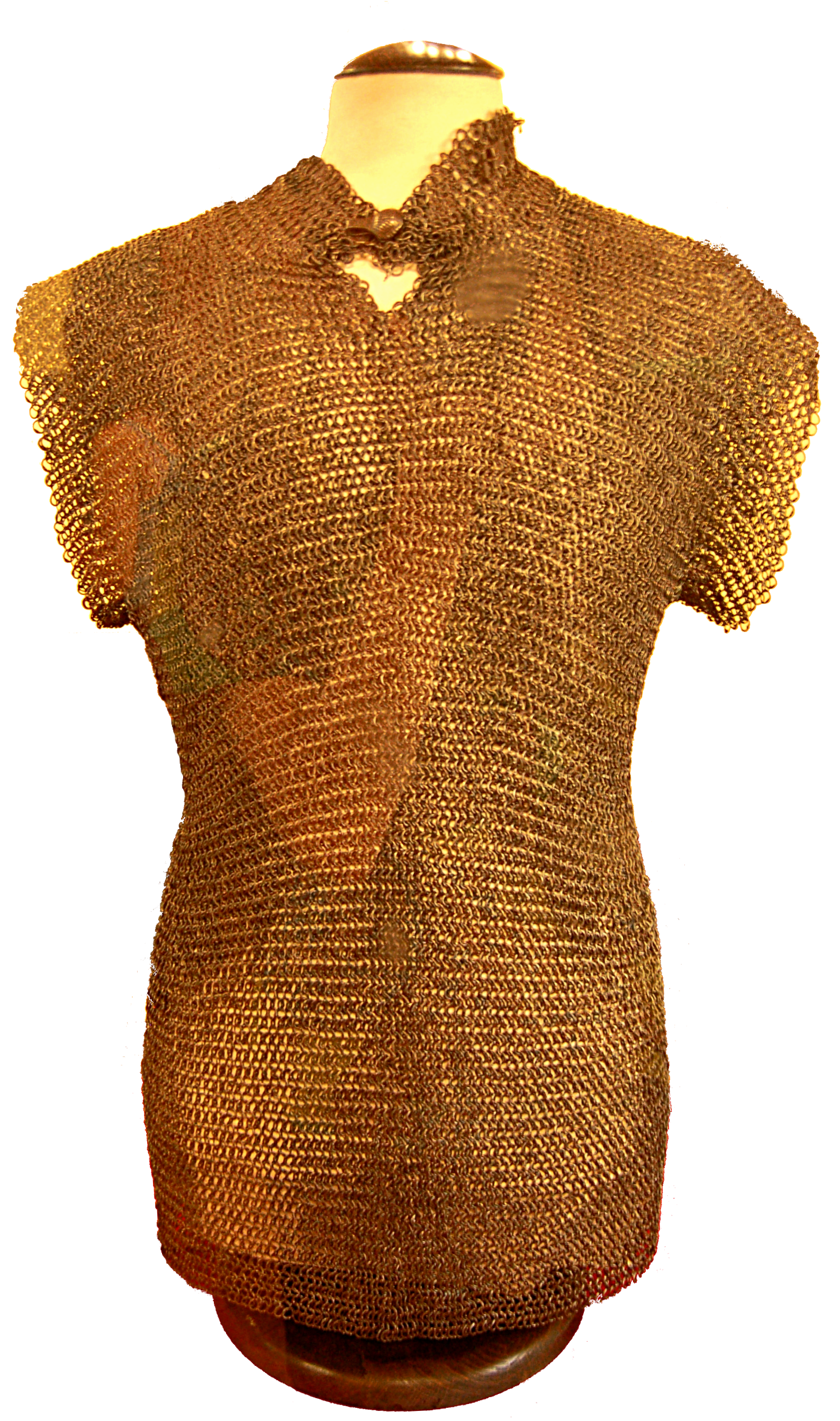 Chainmail armour (in coll. Museum of Middle Age - Paris)